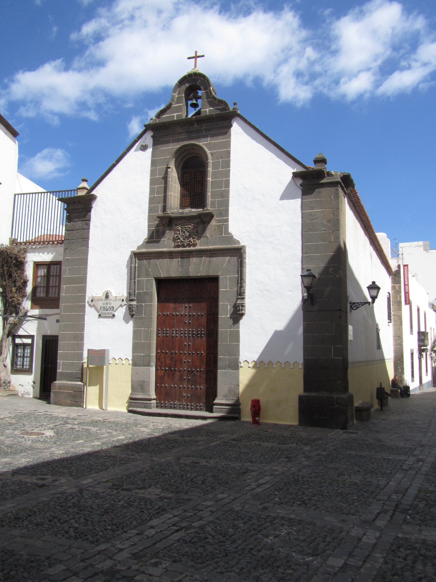 Chapel of Ermita de San Antonio Abad in Las Palmas de Gran Canaria. Christopher Columbus is said to have prayed here.